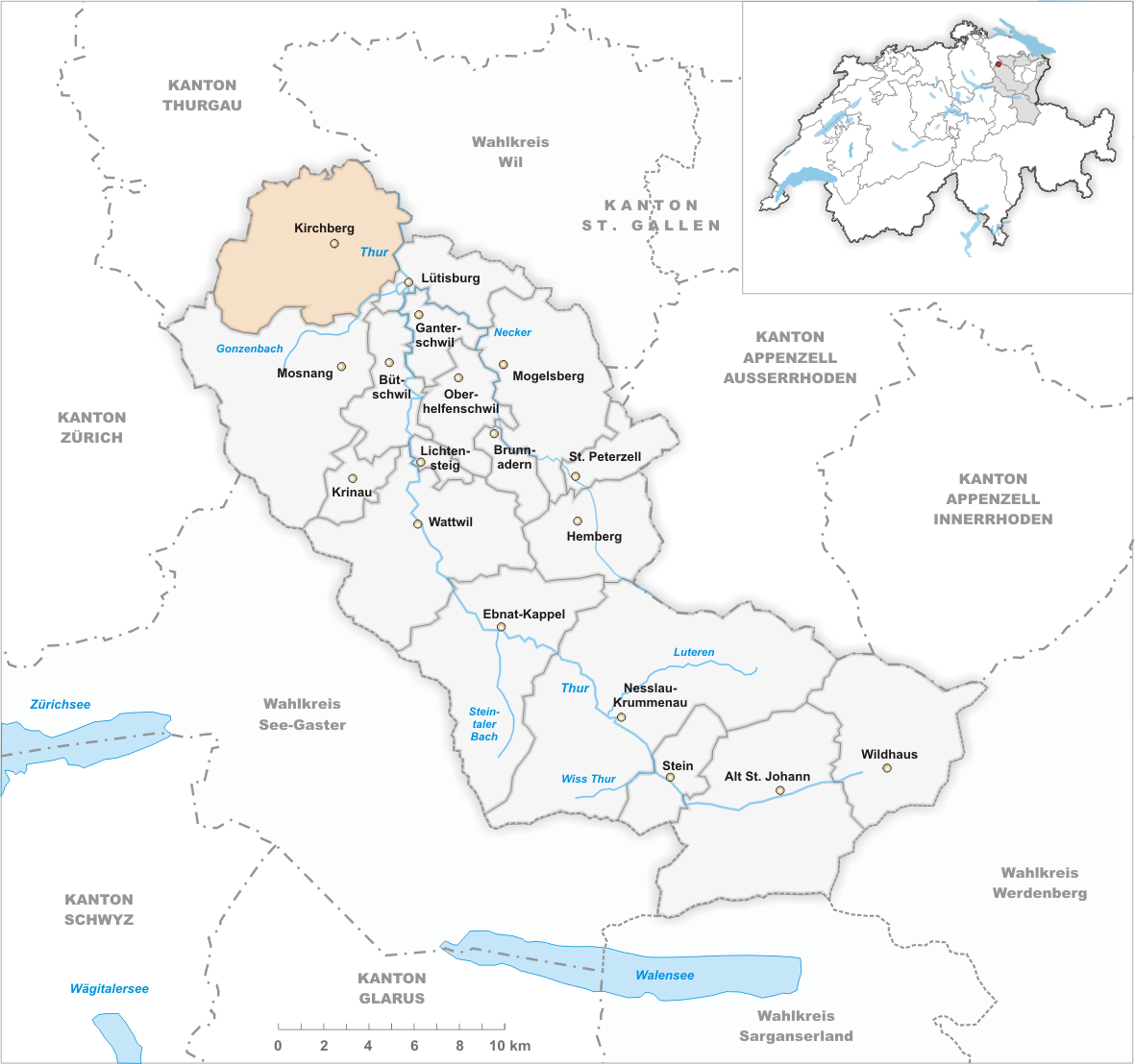 Municipality Kirchberg